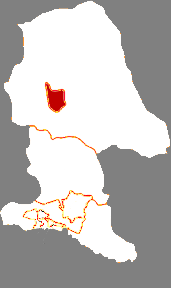 Locator map of Bayan Obo Mining District in Baotou City, Inner Mongolia, China